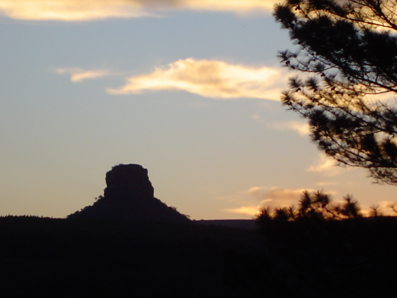 Cuscuzeiro Peak, in Analândia city. Sunset